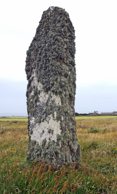 Standing Stone Shapinsay. Orkney Islands Mor Stein. A single standing stone and one of many Neolithic structures dotted about these islands.